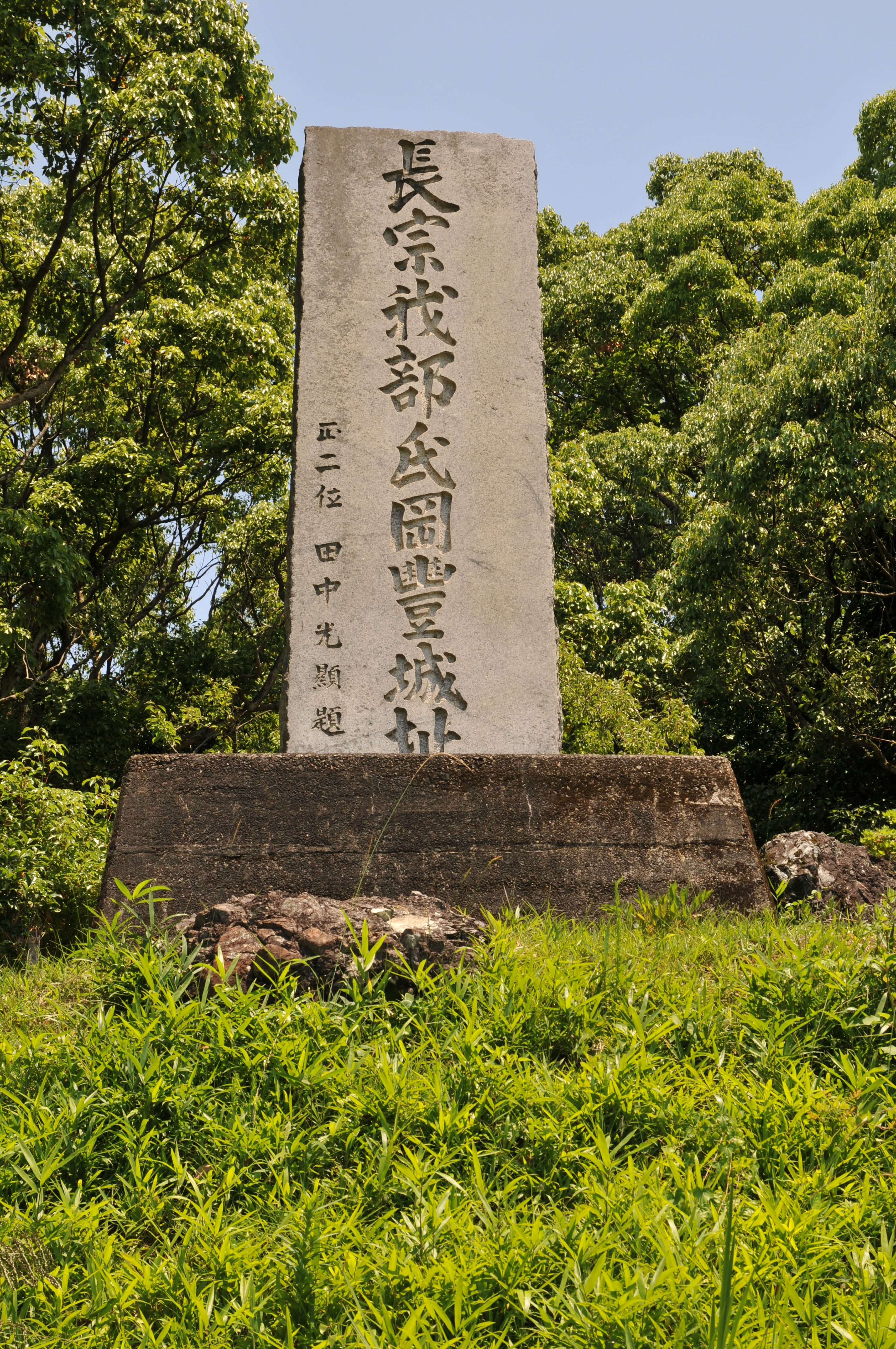 Okō-jō monument